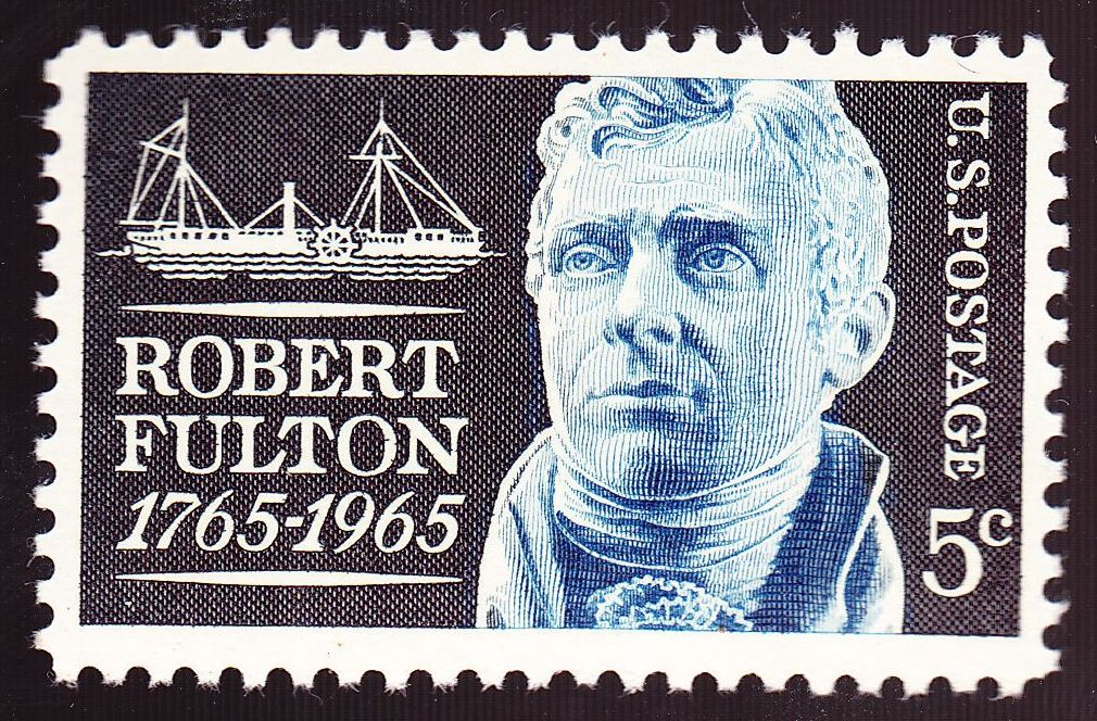 Robert_Fulton_Issue_1965-5c.jpg